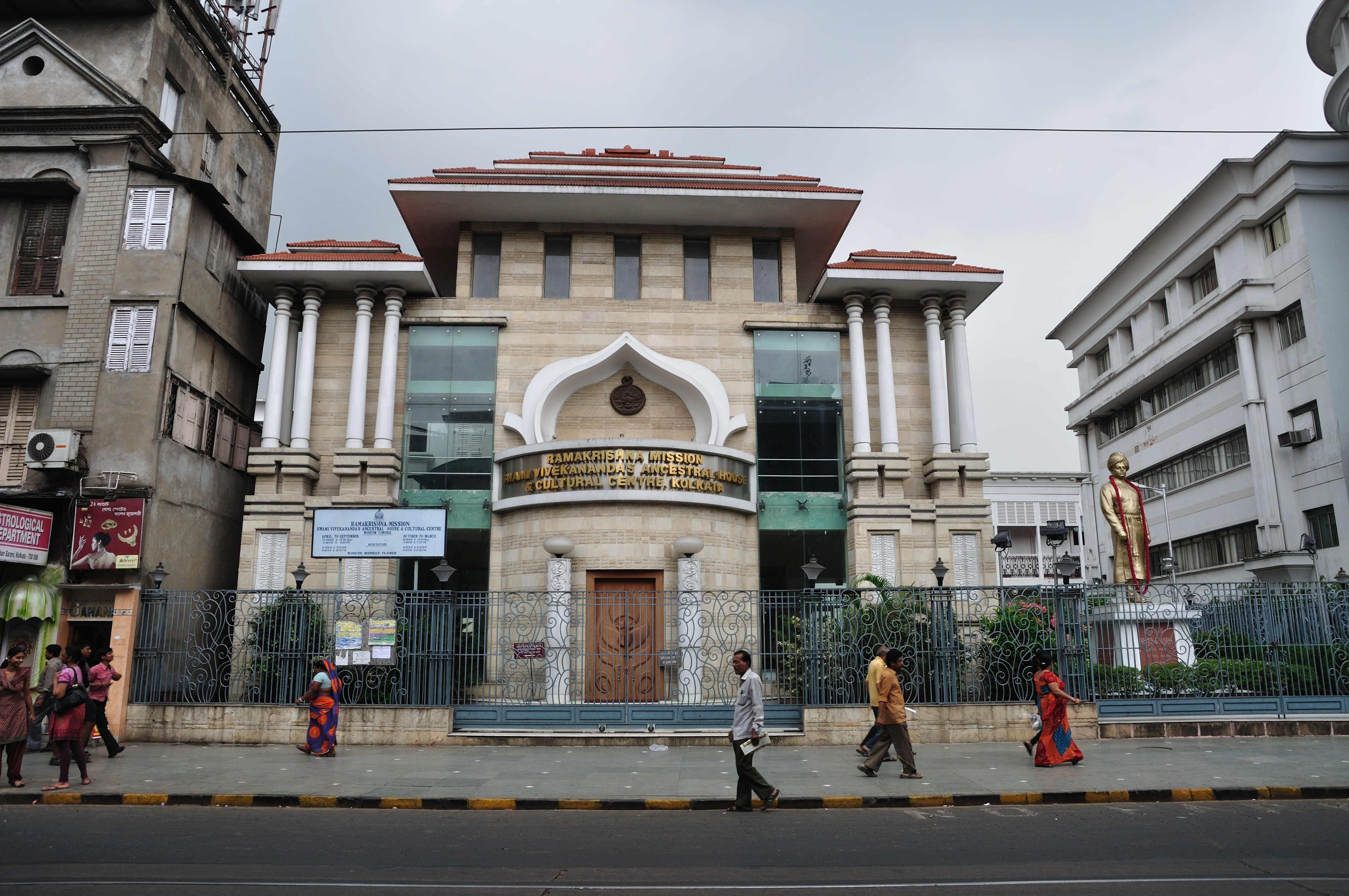 Swami Vivekananda's Ancestral House & Cultural Centre, 3 Gour Mohan Mukherjee street, in North Kolkata, is a museum and cultural centre that acquired, renovated, newly constructed and maintained by the Ramakrishna Mission, where Narendranath Dutta (Swami Vivekananda) born and spend his childhood and pre-monastic life.